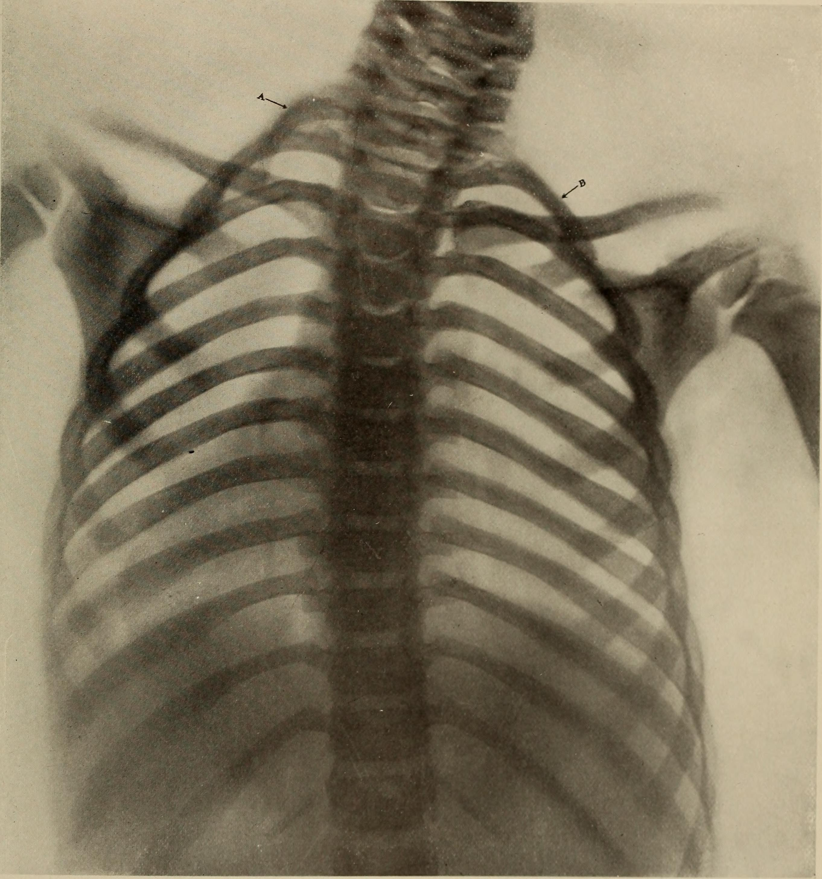 Congenital torticollis and extra rib in 6-year-old boy Title: Living anatomy and pathology; Year: 1910 (1910s) Authors: Rotch, Thomas Morgan Subjects: Children Diagnosis, Radioscopic Publisher: Philadelphia London, J. B. Lippincott company Text Appearing Before Image: PLATE 46.CONGENITAL TORTICOLLIS, Boy, age 6 years. (Reduced 38?% ) A. Extra rib. B. First rib. Plate 46 Text Appearing After Image: PLATE 47.CONGENITAL ELEVATION OF SCAPULA ON LEFT SIDE. Boy, age 6 years. A. Elevated scapula. B. Scoliosis. Plate 47